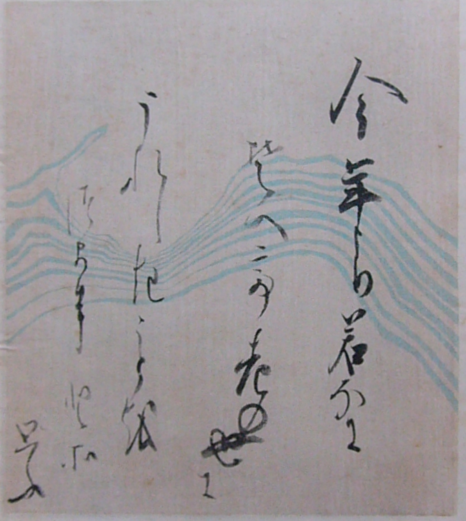 Calligraphy by [Emperor Go-Mizunoo], Ink on Decorated Paper,18.2x16.5cm, 17th century, Japan